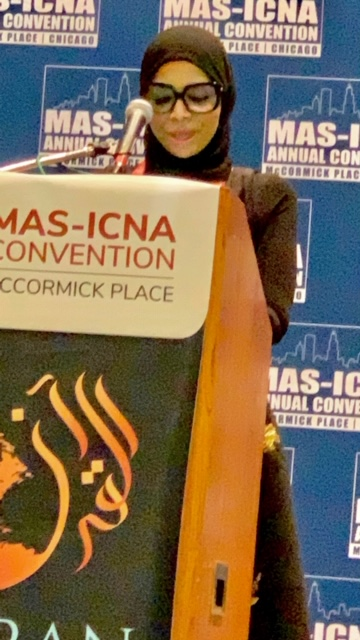 Khalilah Sabra at the MAS-ICNA 2018 Convention